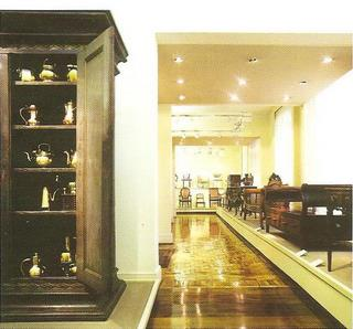 Exhibition room of the Museu da Casa Brasileira, São Paulo, Brazil.